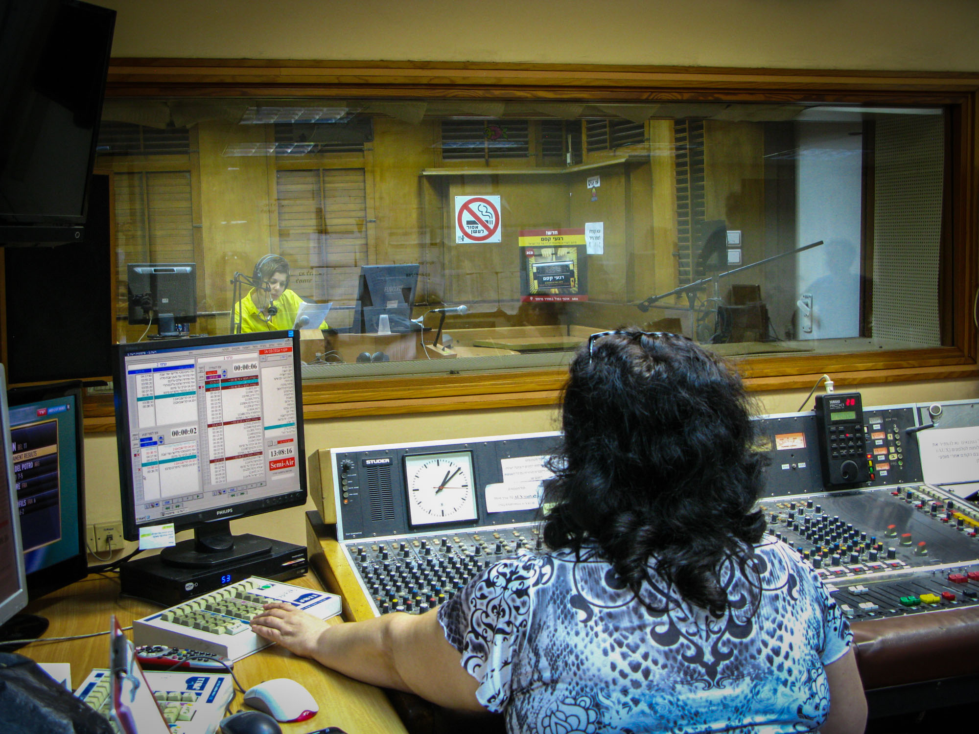 Israel broadcasting authority in Tel Aviv 2016 Radio studio